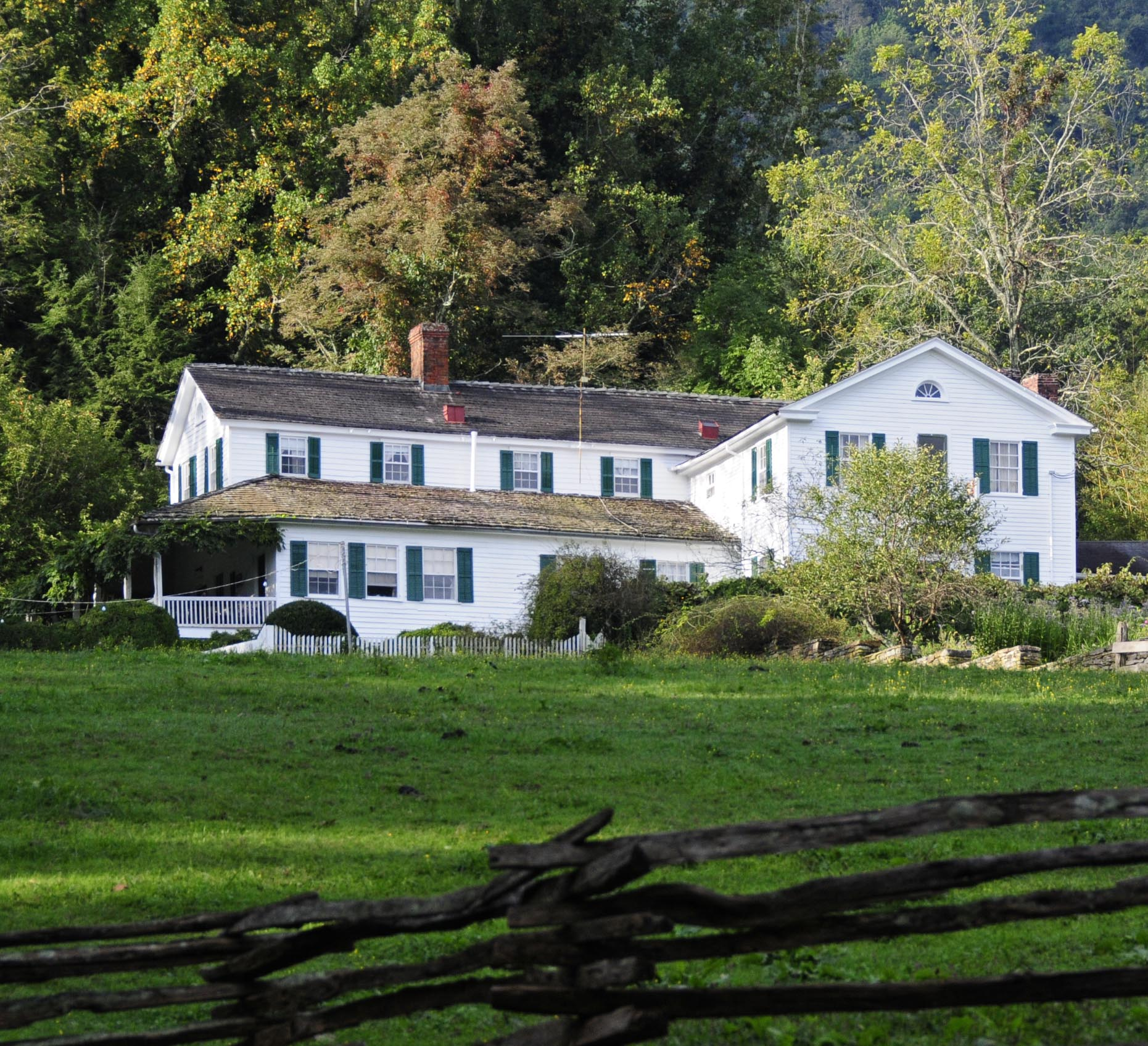 Sherrill's Inn